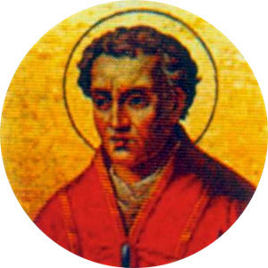 Portait of Pope Gregory VII in the Basilica of Saint Paul Outside the Walls, Rome